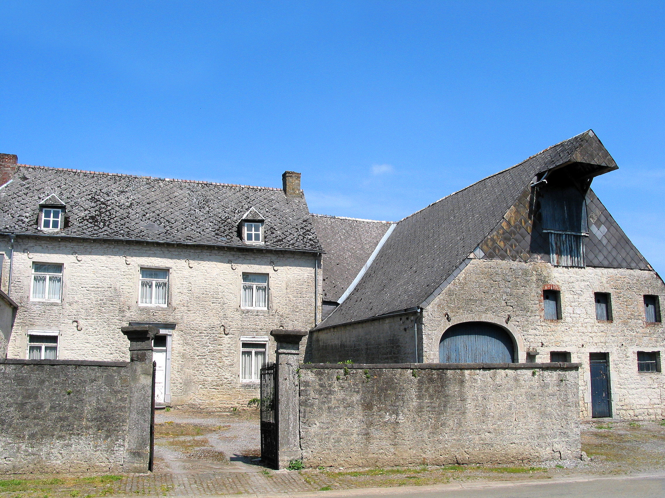 Virelles (Belgium), old farm built of grey limestone rubble (XVIIIth century).